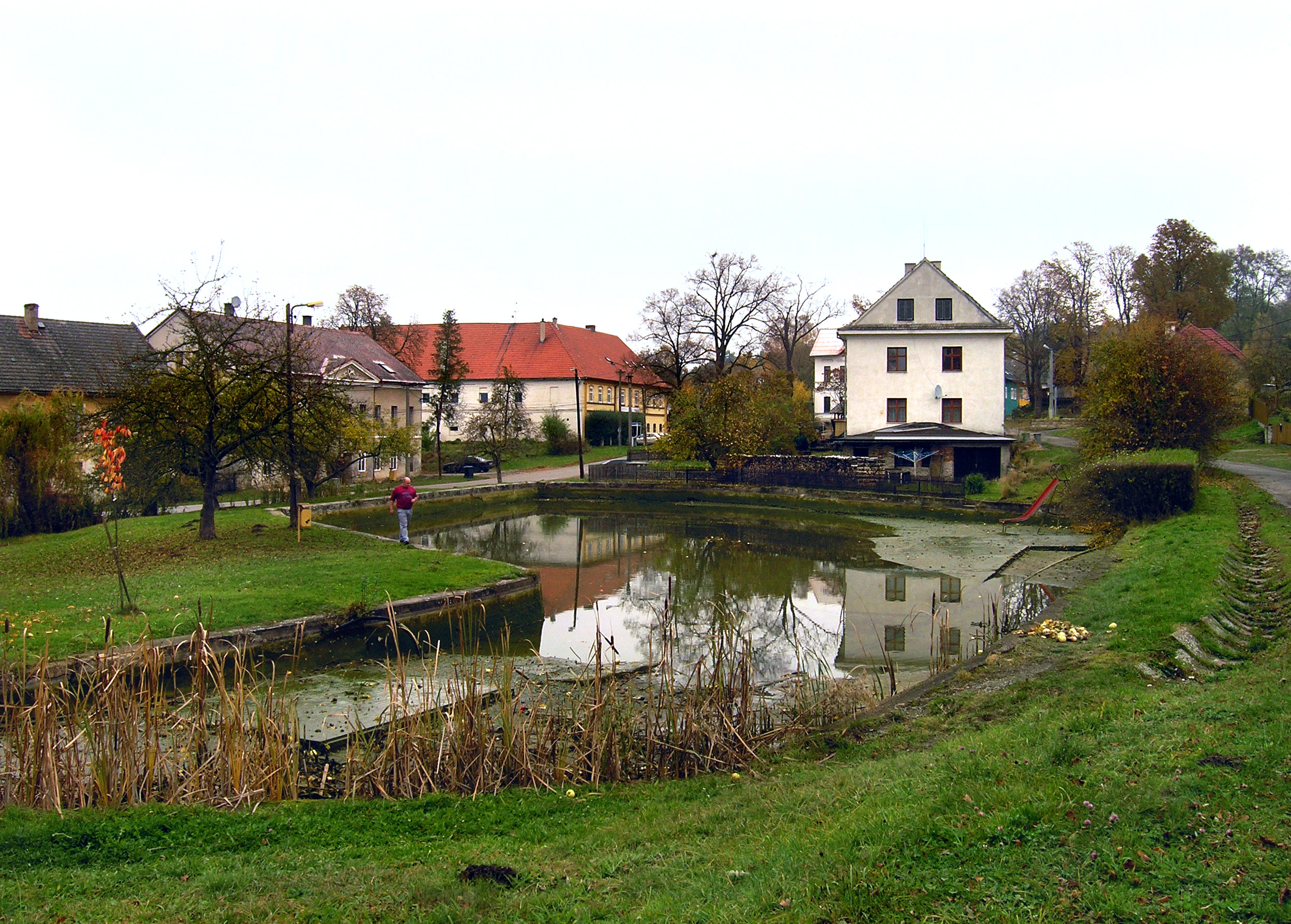 Common pond in Tachov village, Czech Republic